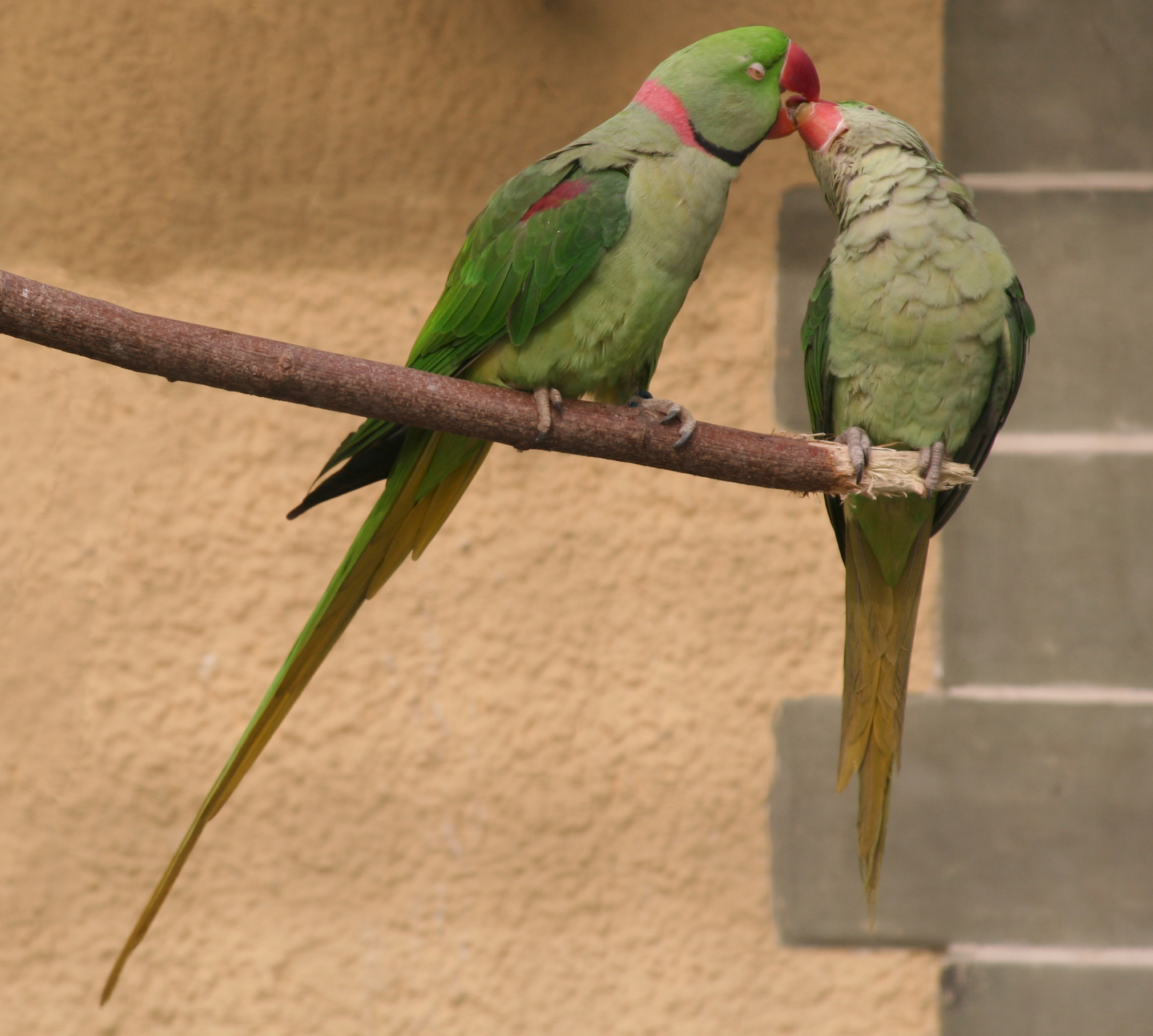 Alexandrine Parakeet (Psittacula eupatria). A pair.